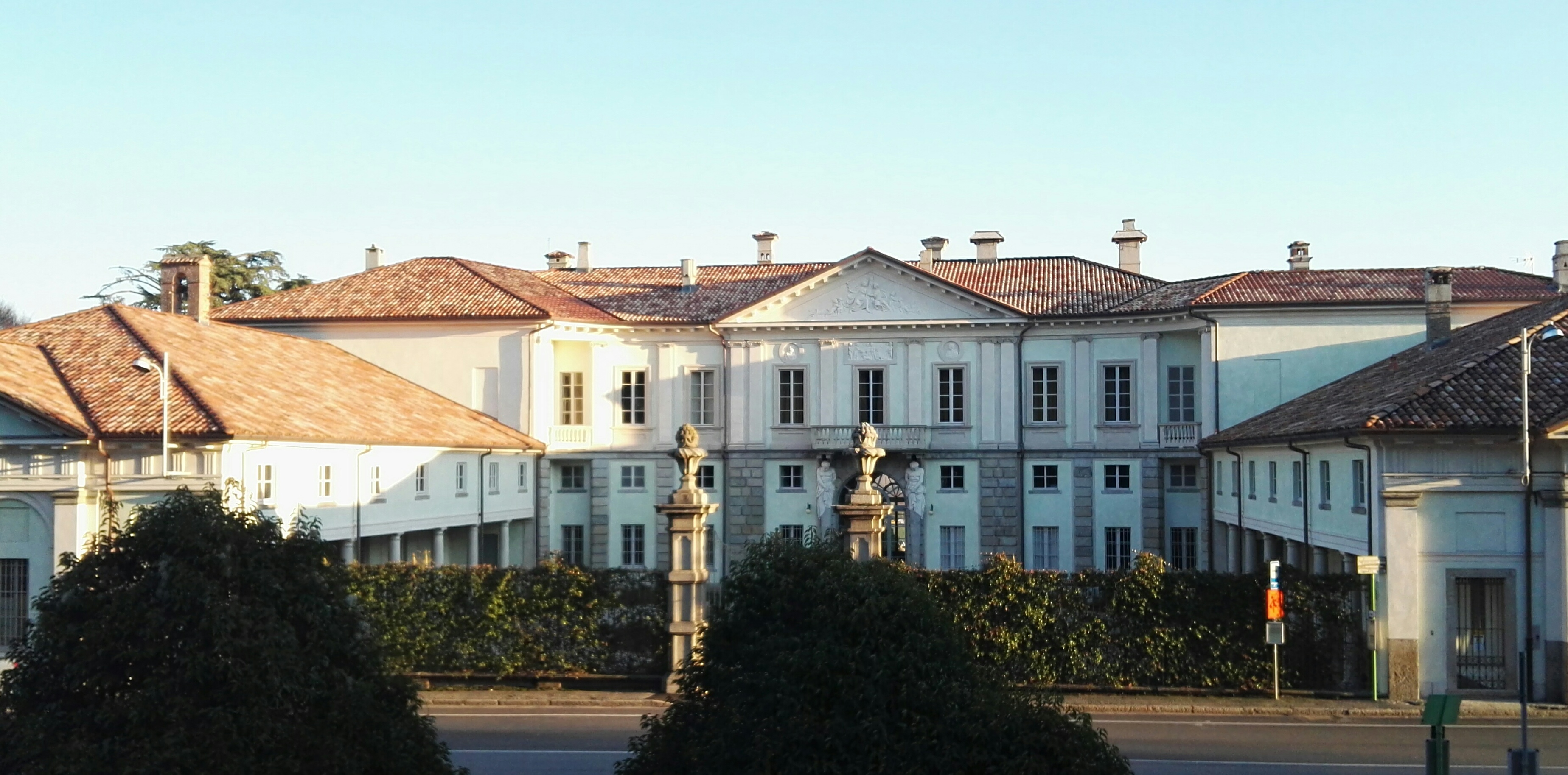 Villa Mugiasca in Villa Guardia